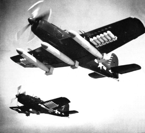 Two Martin AM-1 Mauler attack planes in the late 1940s. The plane in the foreground is armed with bombs and three topedoes, the plan in the background is carrying twelve 12.7 cm (5 in) HVAR-rockets under the wings, two Tiny Tim rockets, and a bomb on the centerline station. Besides these impressive loads the Mauler had inferior handling characteristics and could not compete with the Douglas AD Skyraider.